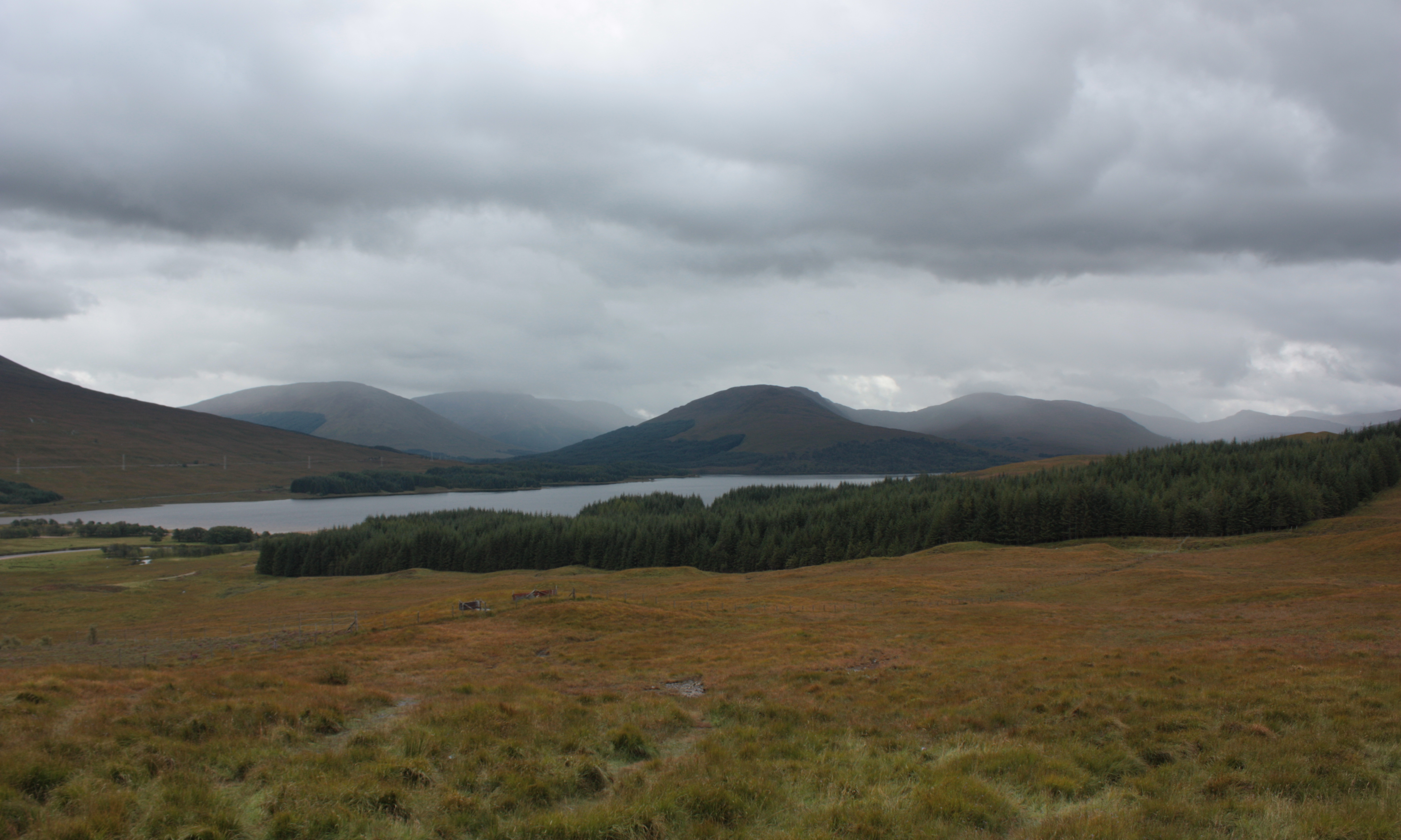 The Bridge of Orchy Hills